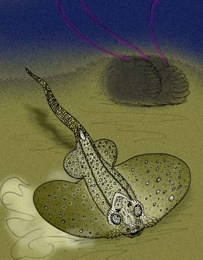 Reconstruction of the rhenanid placoderm, Asterosteus stenocephalus, from the Middle Devonian of Ohio.